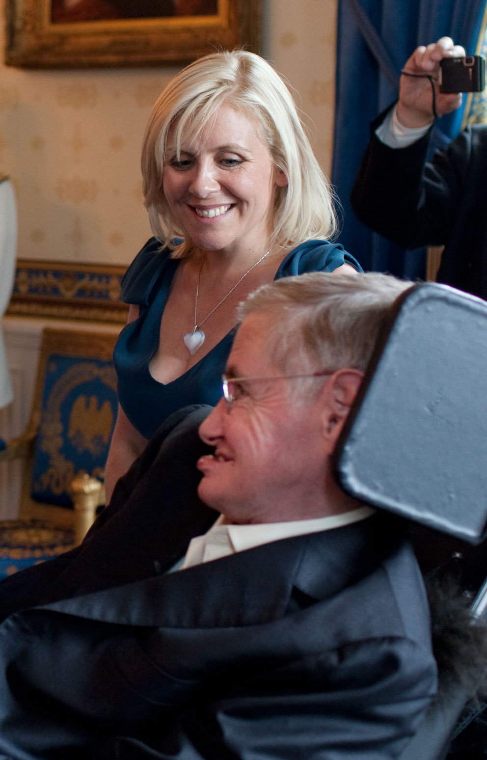 Dr. Stephen Hawking with his daughter Lucy Hawking in the Blue Room of the White House before a ceremony presenting him and 15 others the Presidential Medal of Freedom on 12 August 2009. The Medal of Freedom is America's highest civilian honor.